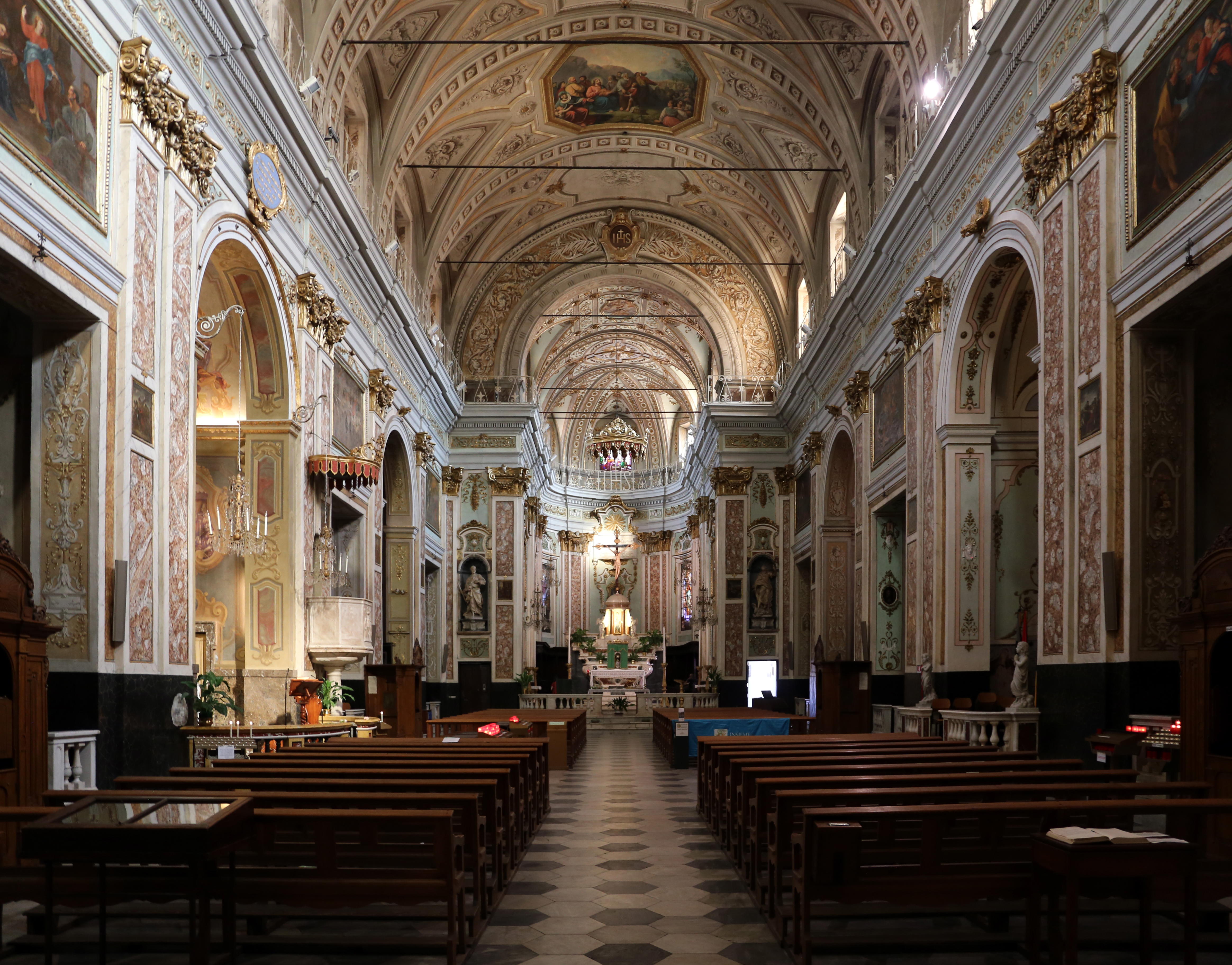 Madonna Miracolosa e Santi Giacomo e Filippo (Taggia)